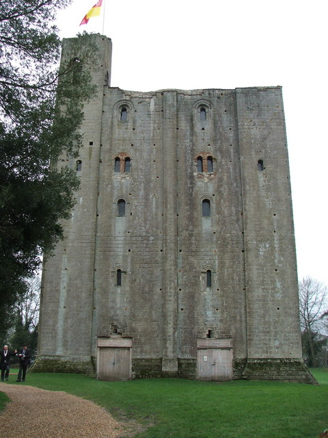 Castle Hedingham, Essex Castle Hedingham's very well preserved keep. Built in 1140 by Aubrey de Vere, on a flat, raised platform that was the site of an earlier timber fortress. William de Corbeuil, Archbishop of Canterbury and architect of Rochester Castle & Cathedral, is believed to have been its designer. The Tower stands to 110ft (33m).